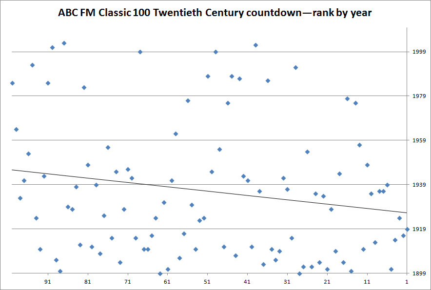 Graphical ranking by year of the Classic 100 Twentieth Century (ABC) countdown.